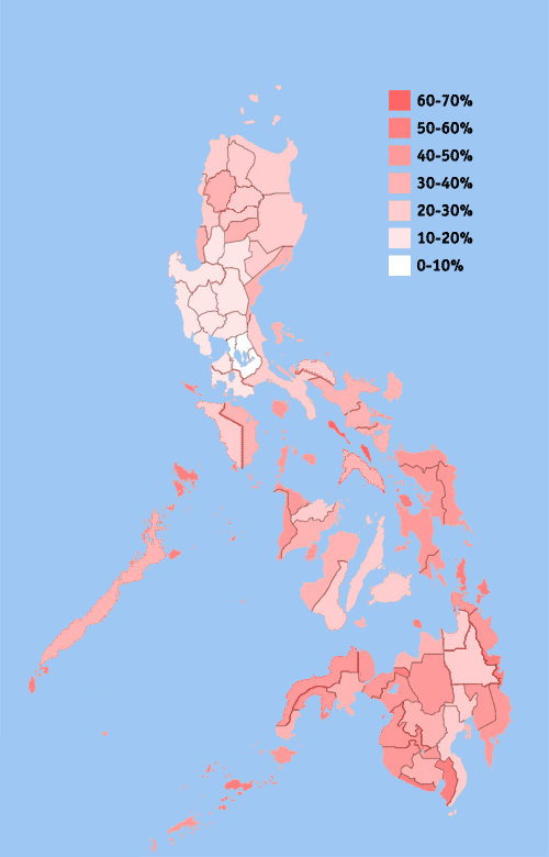 Philippines wealth chart